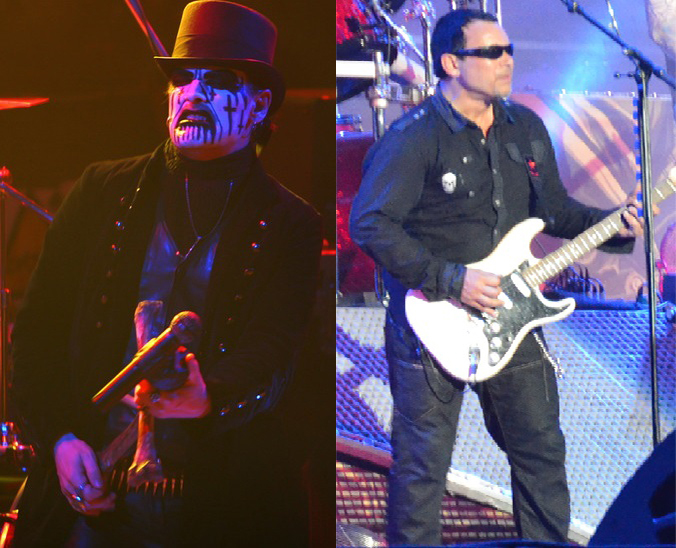 King Diamond and Hank Shermann from Mercyful Fate.